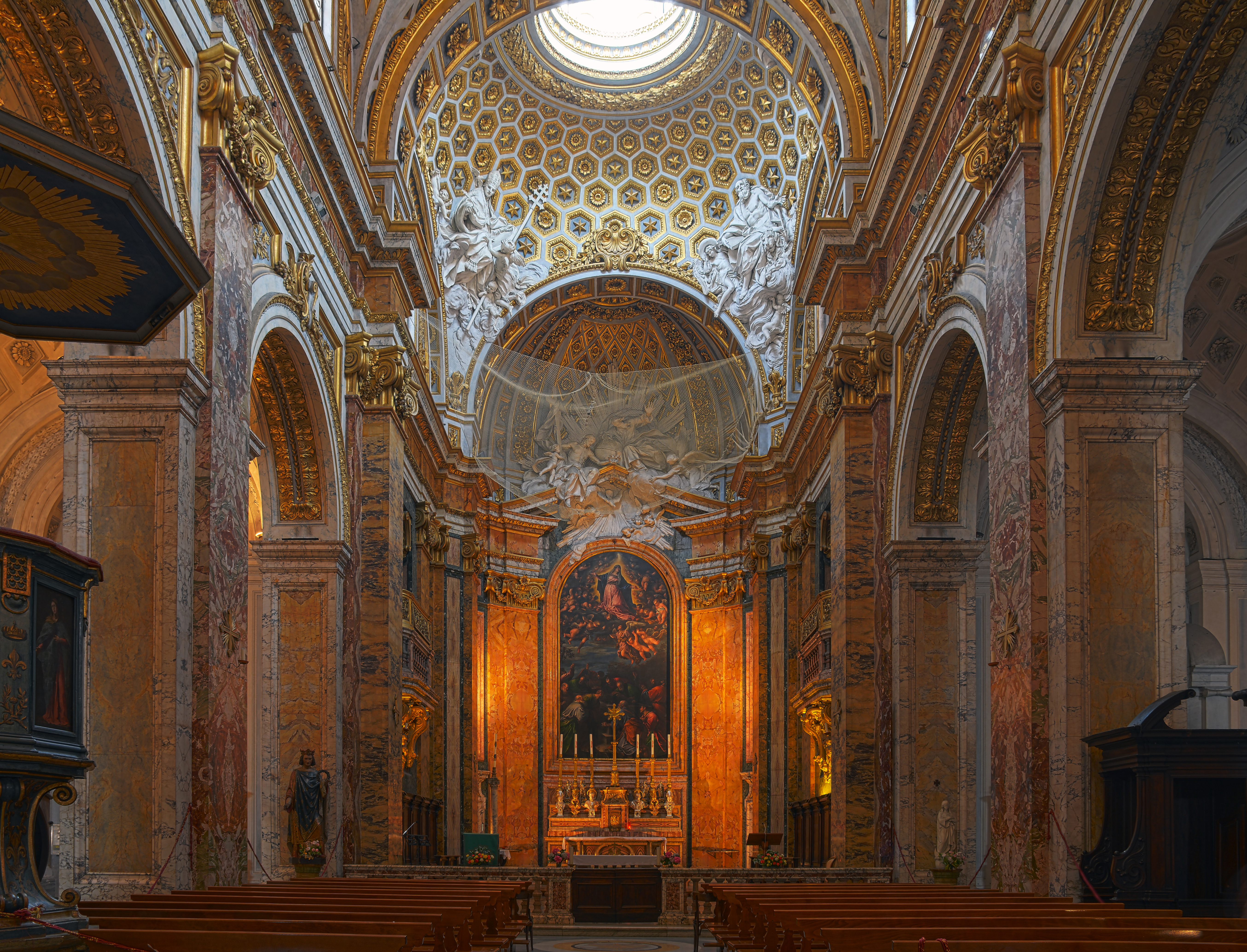 San Luigi dei Francesi (Rome) - Intern HDR